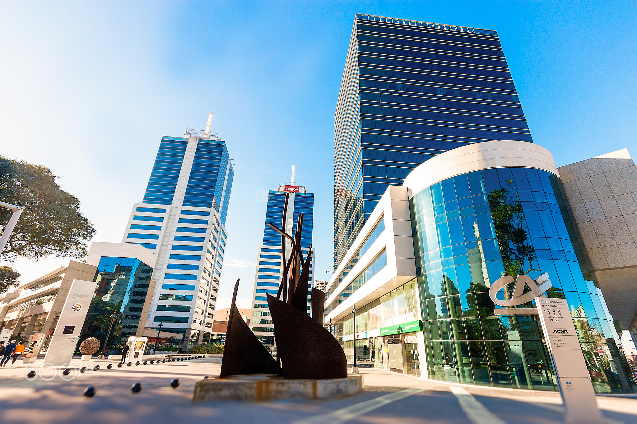 500px provided description: World Trade Center Uruguay [#sky ,#city ,#people ,#street ,#travel ,#blue ,#sun ,#light ,#clouds ,#architecture ,#cityscape ,#building ,#beautiful ,#green ,#uruguay ,#montevideo ,#urban exploration]